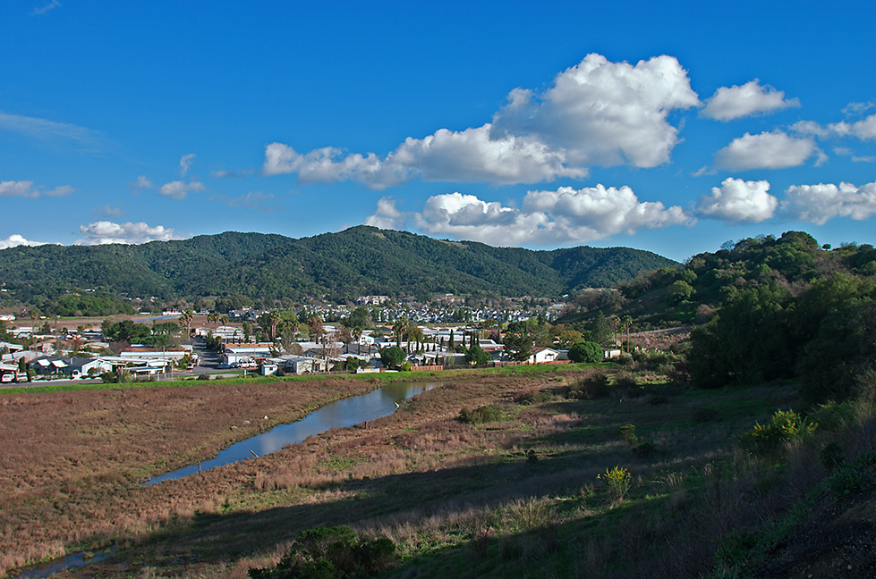 Tidal wetlands and Santa Venetia houses — in Marin County, California. Ken Papai author, photo by author in March 2006, fair use to all to use.